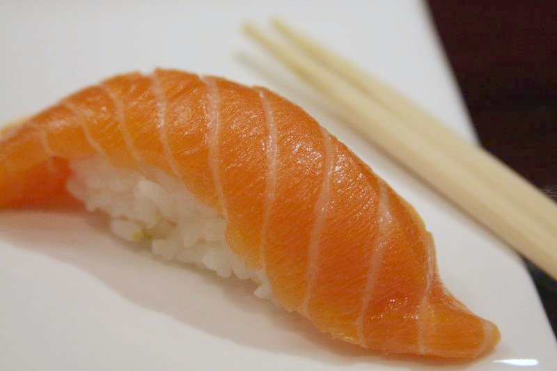 Salmon Nigiri Sushi with chopsticks, 2008.